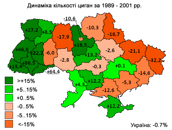 Population change of ukrainian roma between 1989 and 2001 censuses